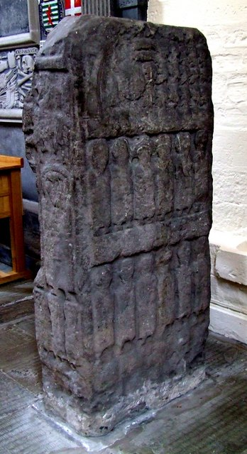 Pictish cross slab, Dunkeld Cathedral The rear of this broken cross slab is almost filled with two figurative panels. Each panel depicts six robed and heavily weathered figures. It is postulated that these figures represent the Apostles and the larger figure on the side of the slab is Christ.